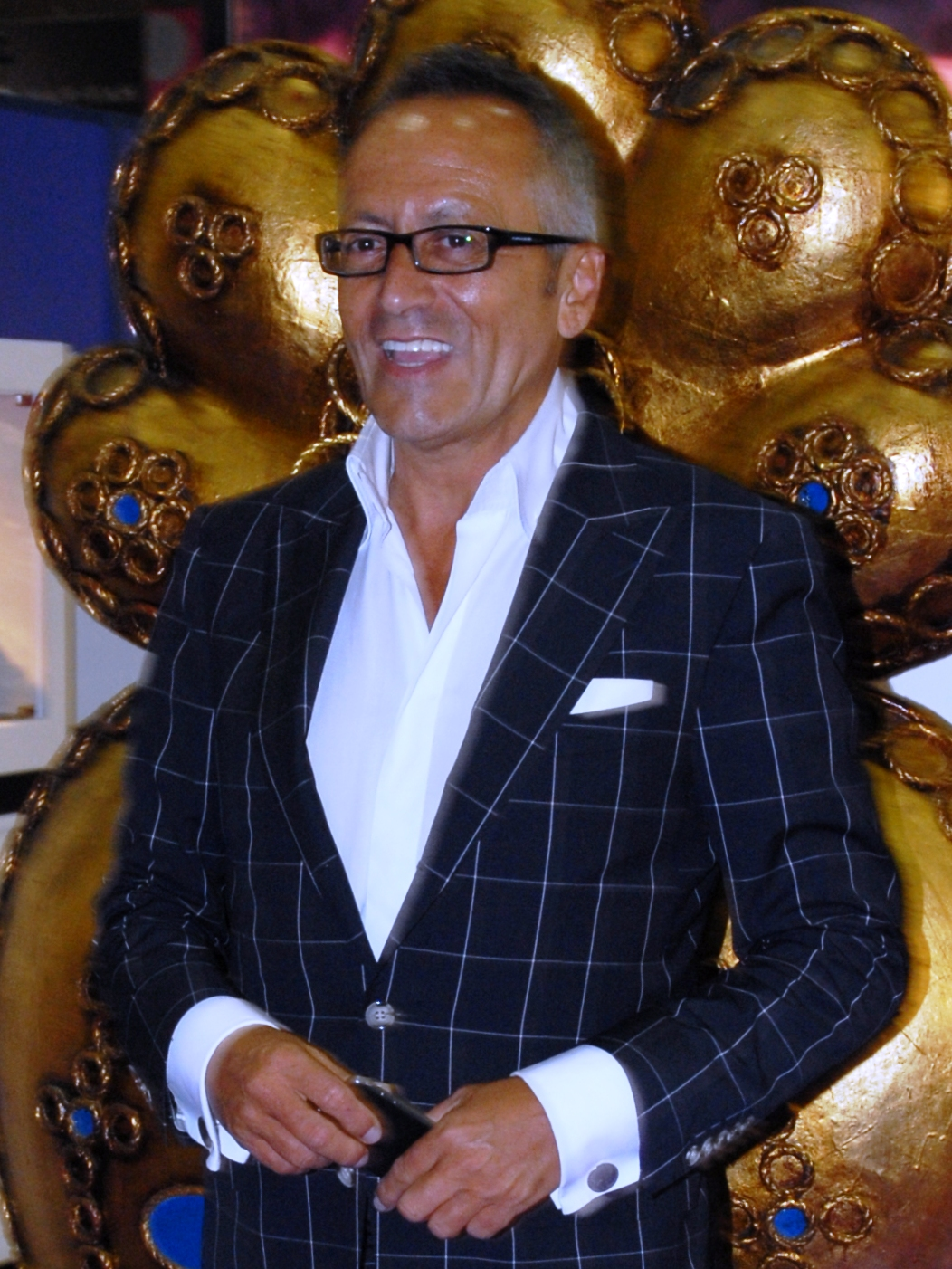 Portuguese television presenter Manuel Luis Goucha at PortoJoia 2012 trade fair, at Exponor, Porto, Portugal.